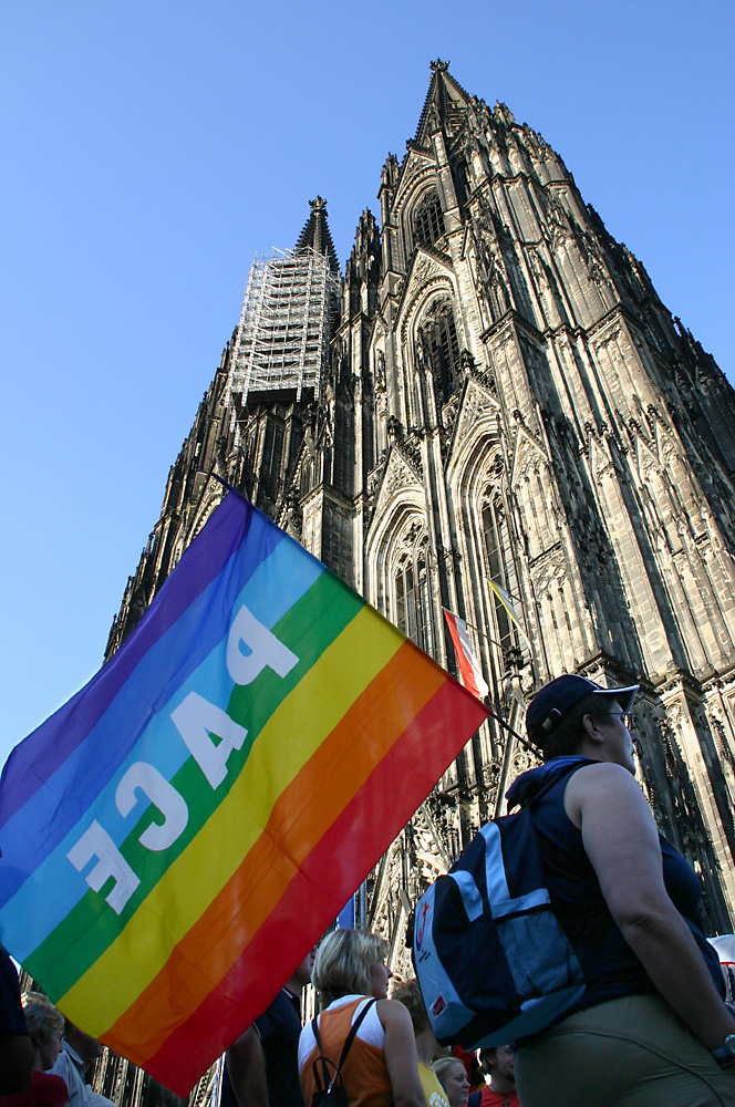 World Youth Day 2005 in Cologne, Germany date: 2005-08-17 author: Elke Wetzig (elya)